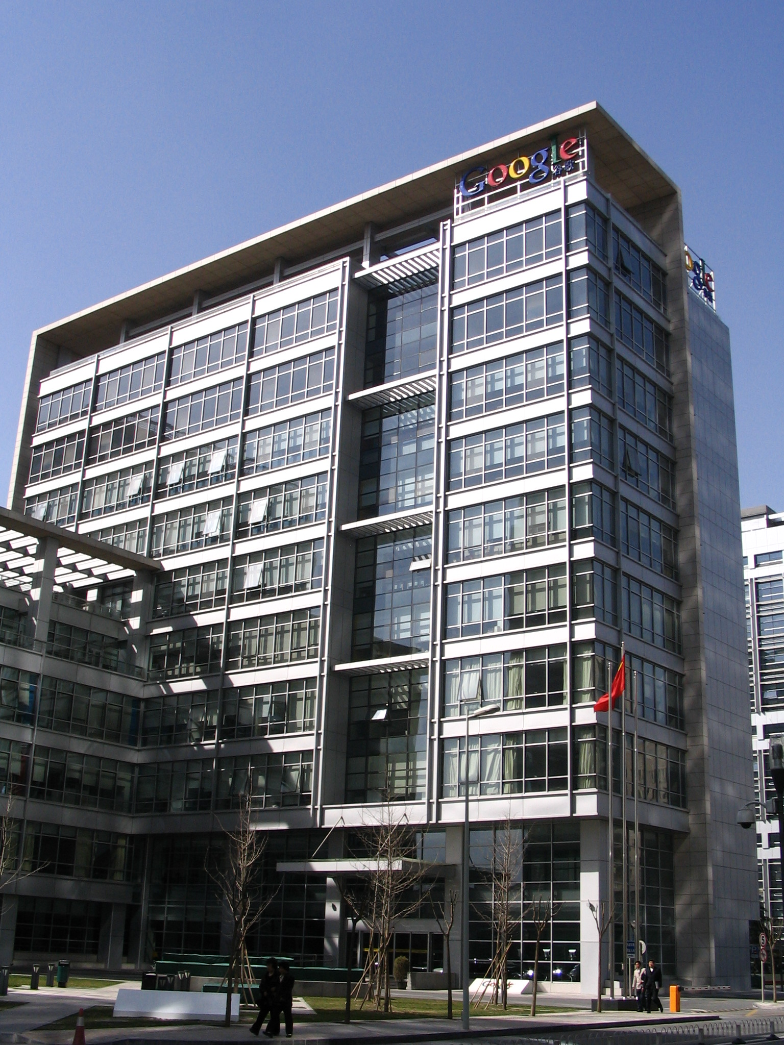 Former Google China headquarters in the Tsinghua Science Park (S: 清华科技园, T: 清華科技園, P: Qīnghuá Kējì Yuán), Beijing - Tsinghua Science Park Bldg 6 No. 1 Zhongguancun East Road (Zhongguancun Donglu), Haidian District Beijing 100084